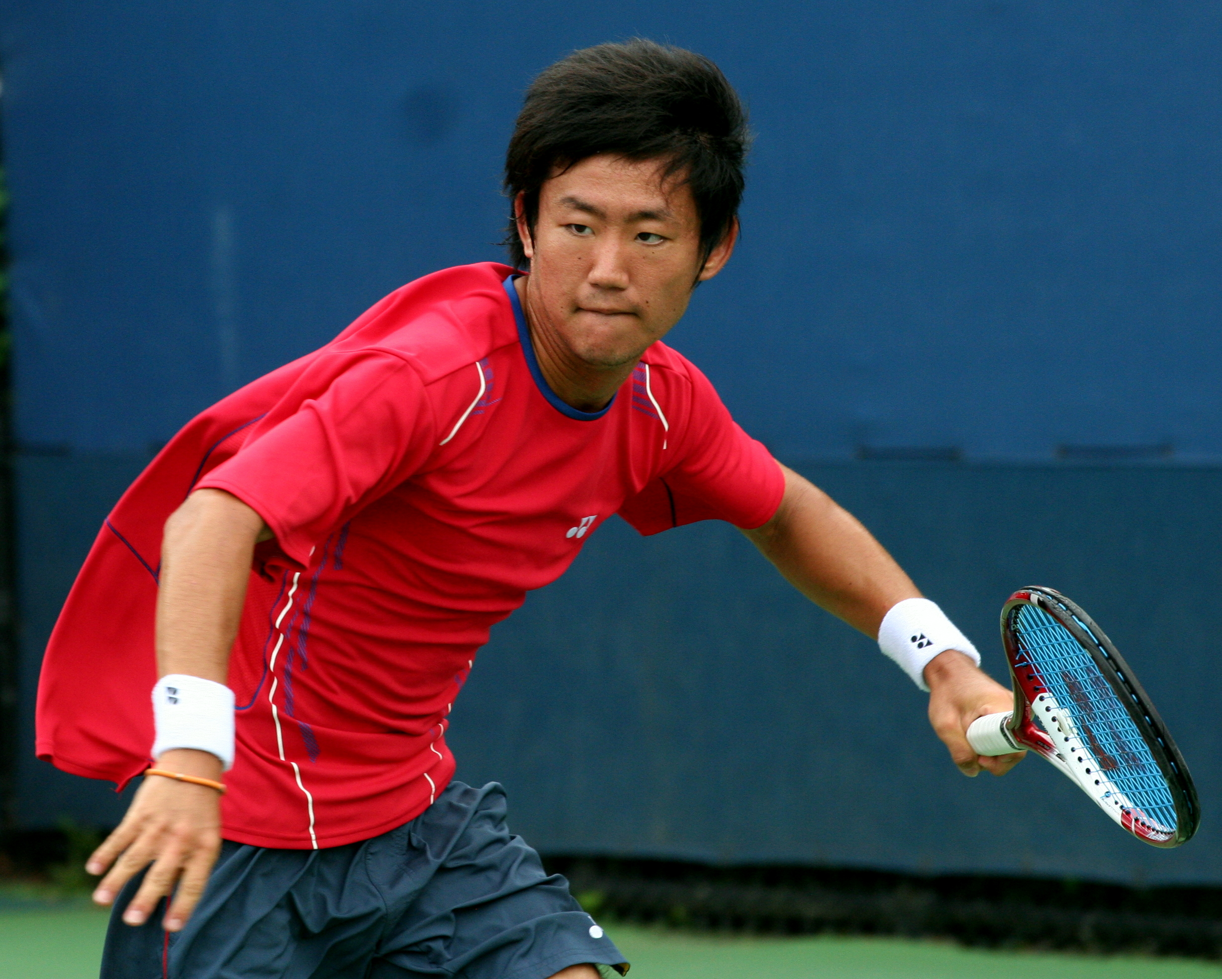 U.S. Open Juniors Tuesday, Sept. 3, 2013=